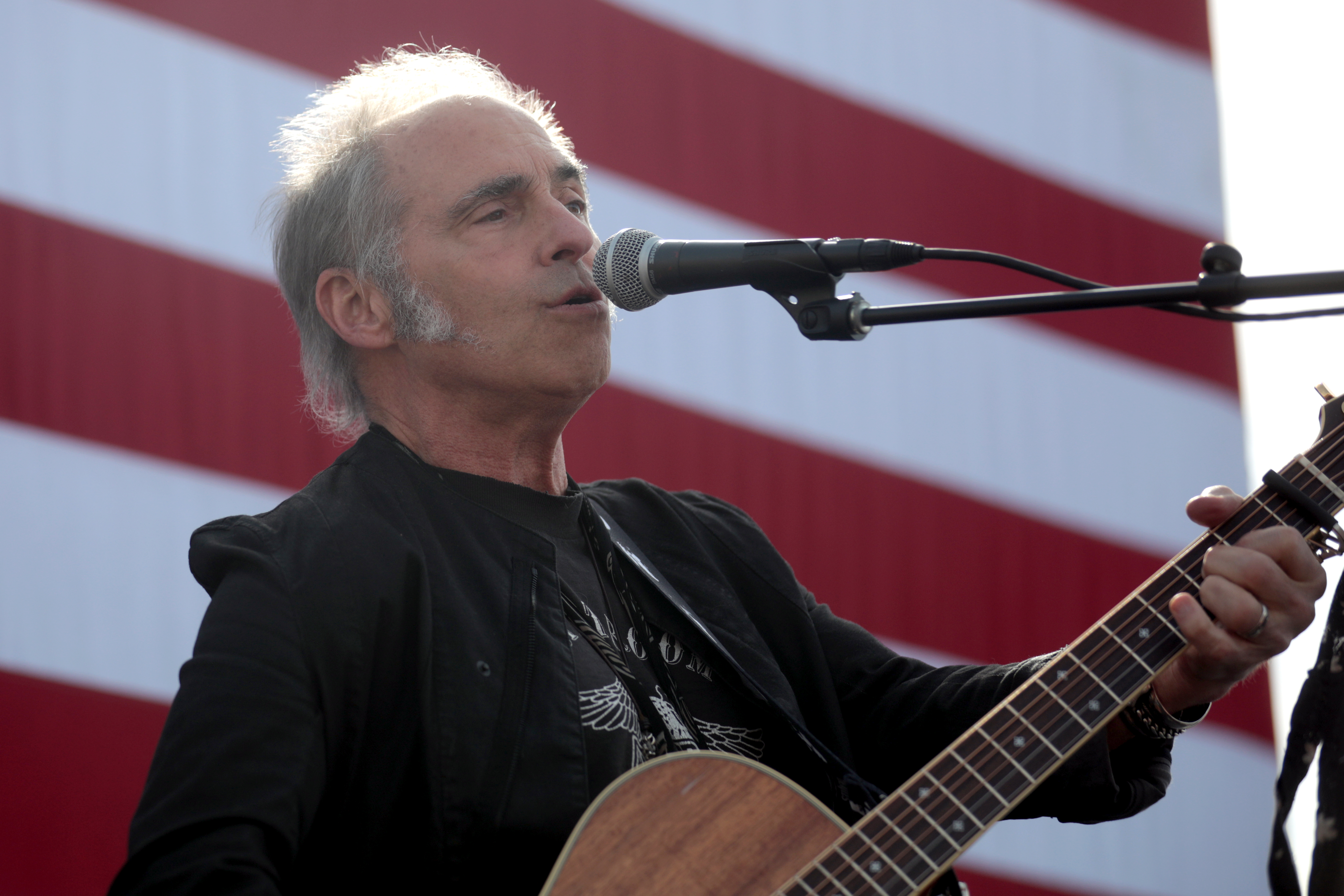 Nils Lofgren performing for supporters at the Phoenix launch of Mark Kelly's U.S. Senate campaign at The Van Buren in Phoenix, Arizona.